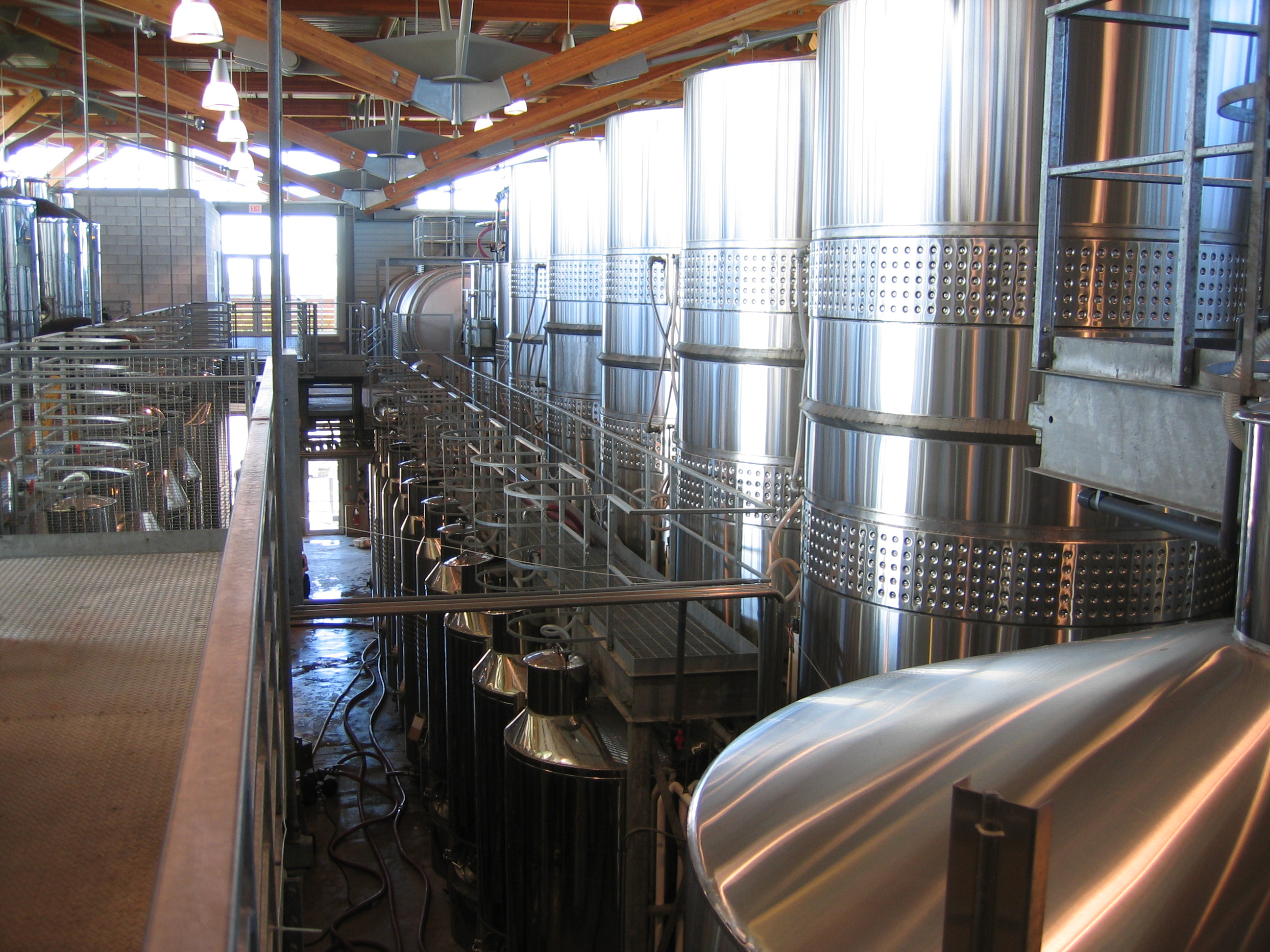 Interior view of the Jackson-Triggs winery in Niagara, Ontario, Canada, a typical modern-style winery with temperature-controlled stainless steel fermentation tanks